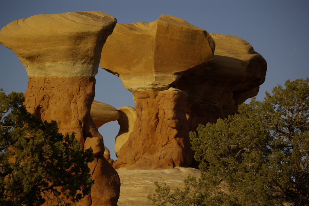 Hoodoos in Devil´s Garden, GSENM